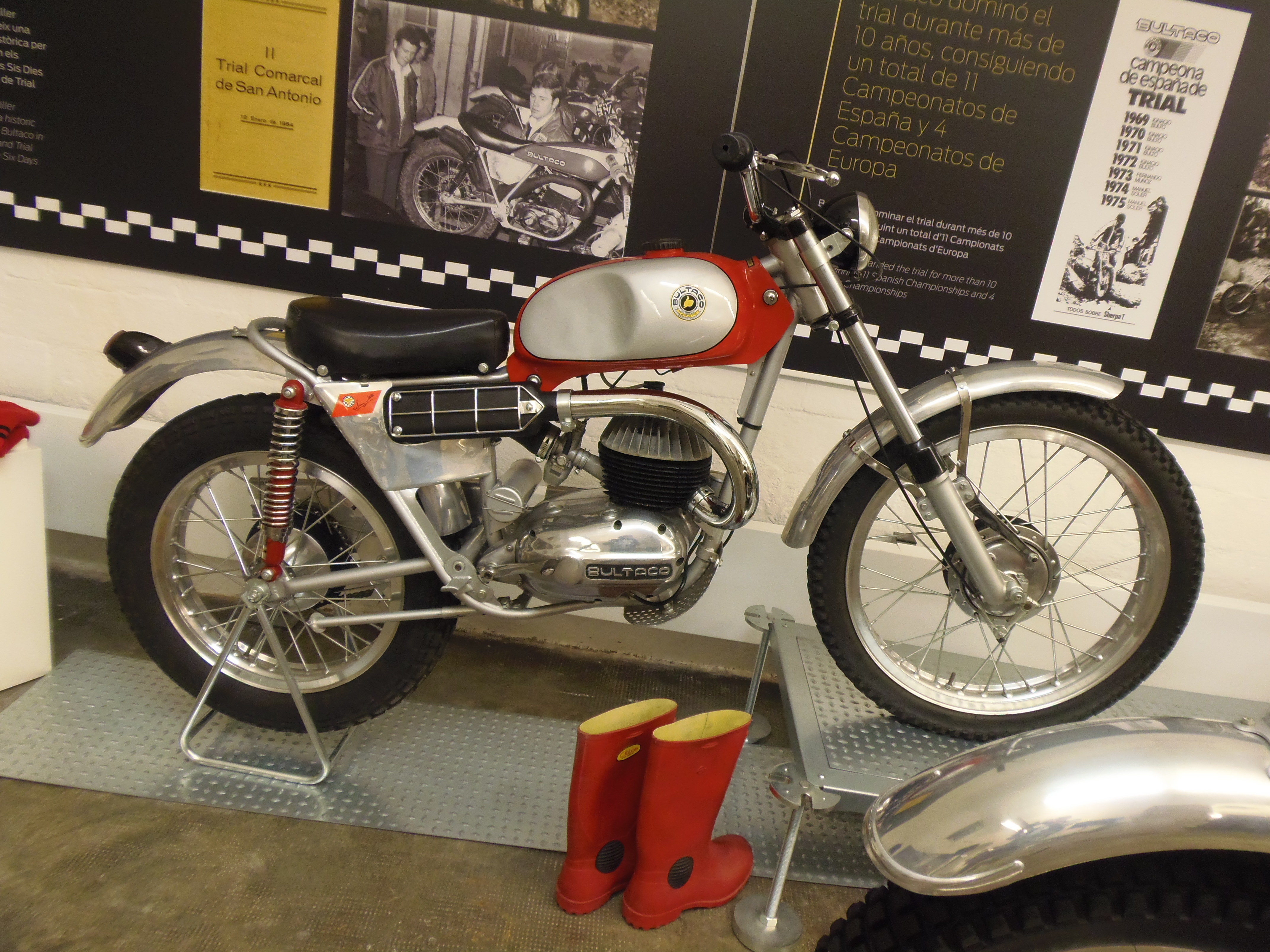 Bultaco Sherpa T Model 10, 250 cc, 1965. The first version of the Sherpa T, developed by mythical Northern Irish rider Sammy Miller in collaboration with Bultaco.